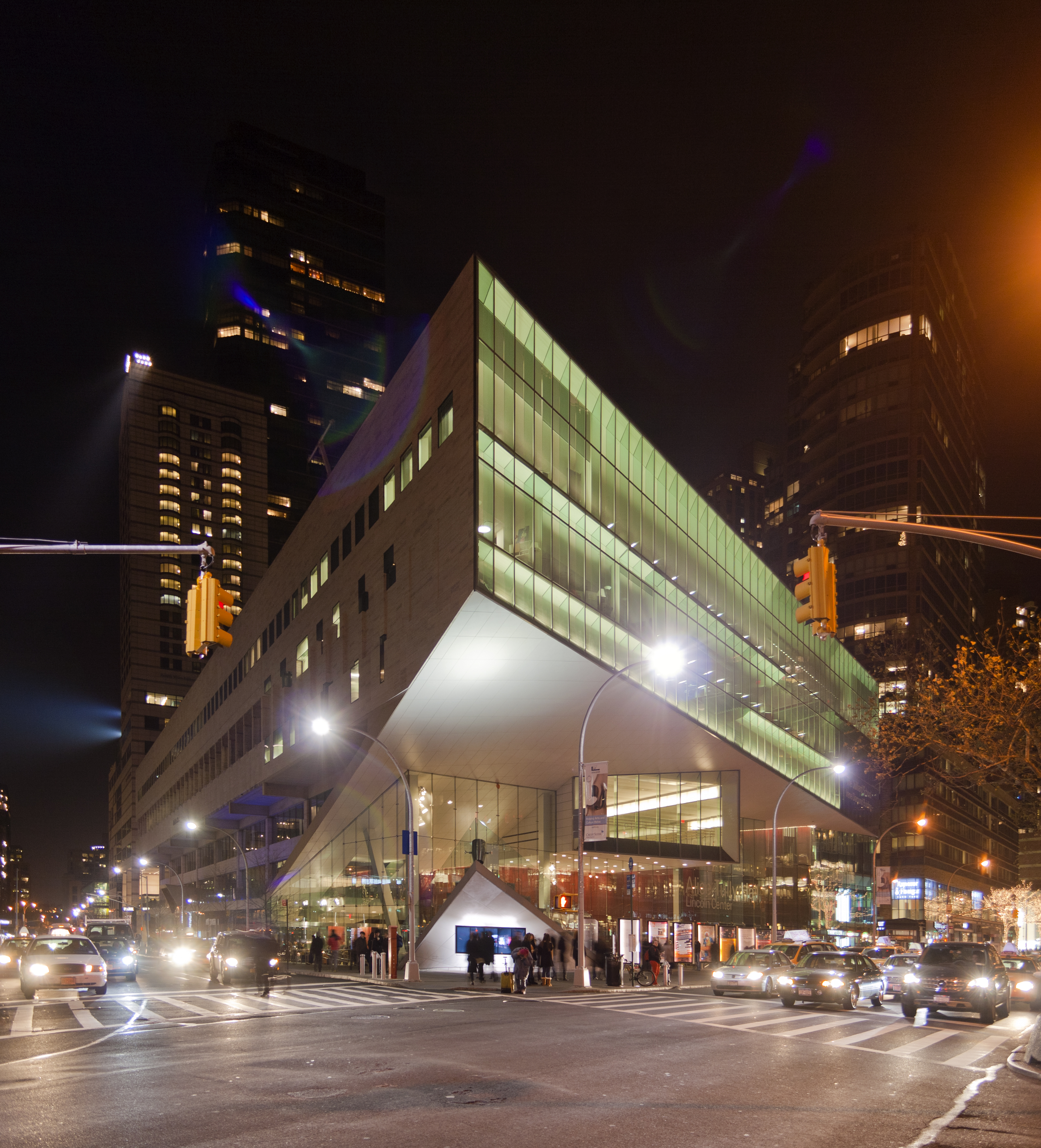 Alice Tully Hall at night.